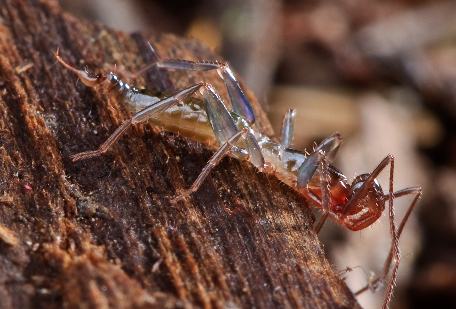 Male schizomid Hubbardia pentapeltis. Photo taken in College Heights, San Diego, California, USA.